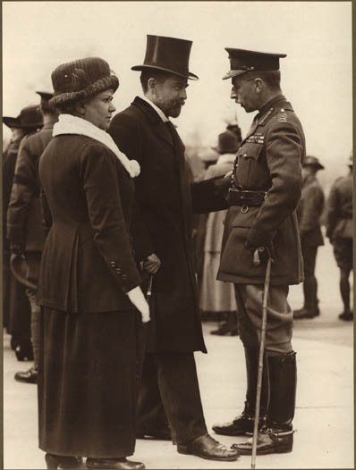 Digital Image Number: I0004877.jpg Title: Sir George Perley and his wife meeting with Turner, a senior Canadian Officer during World War I Date: [ca. 1918] Creator: Unknown photographer. Canadian Expeditionary Forces albums Format: Black and white print Reference Code: C 224 Item Reference Code: C 224-0-0-11-42 Subject: War,World War, 1914-1918,Politicians,Military officers